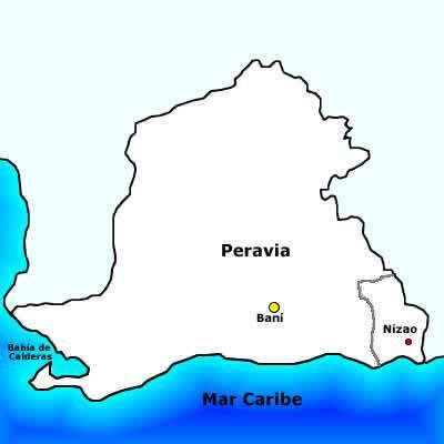 Municipalities of Peravia Province.